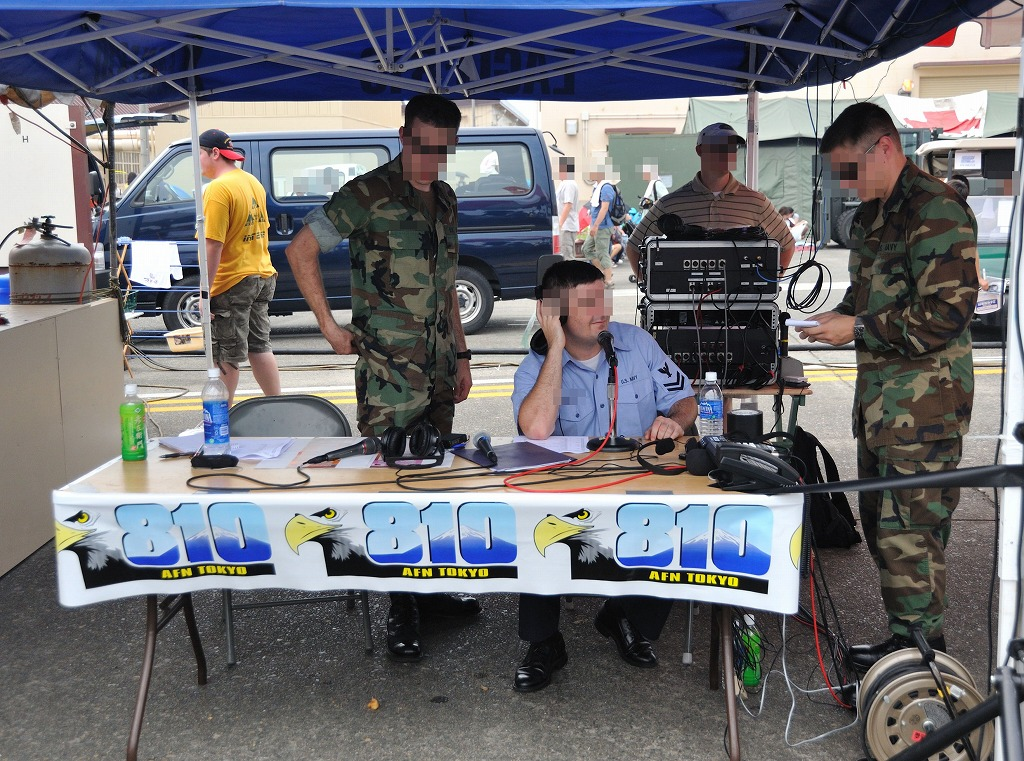 Tokyo staff of the American Forces Network